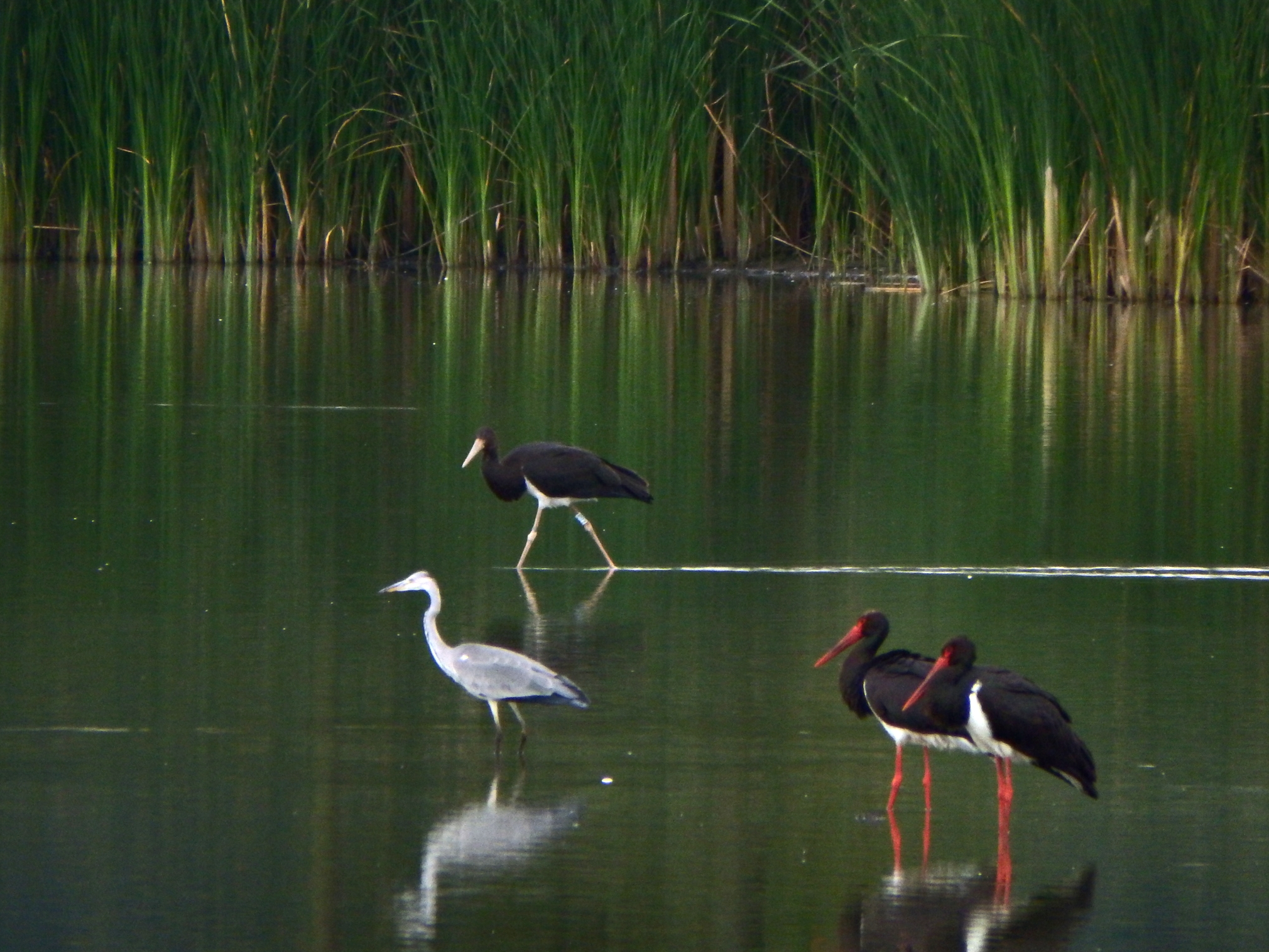 Nature park Záhlinické rybníky, Kroměříž District, Czech Republic.